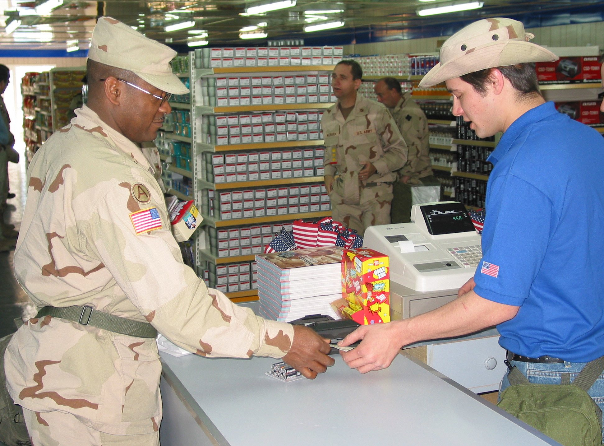 Camp Patriot, Kuwait (Mar. 3, 2003) -- Lt. Col. Lonzel Lakey, of Atlanta, Ga., passes a $5 bill to James Kemp, a civilian Department of Defense employee from Albuquerque N.M., to pay for his purchase and become the first customer at the newly-opened Camp Patriot Army Air Force Exchange Service (AAFES) facility. One of nearly 3,000 U.S. service members at Camp Patriot, Lakey said he enjoyed the long-awaited grand opening. U.S. Navy photo by Journalist 1st Class Joseph Krypel. (RELEASED)